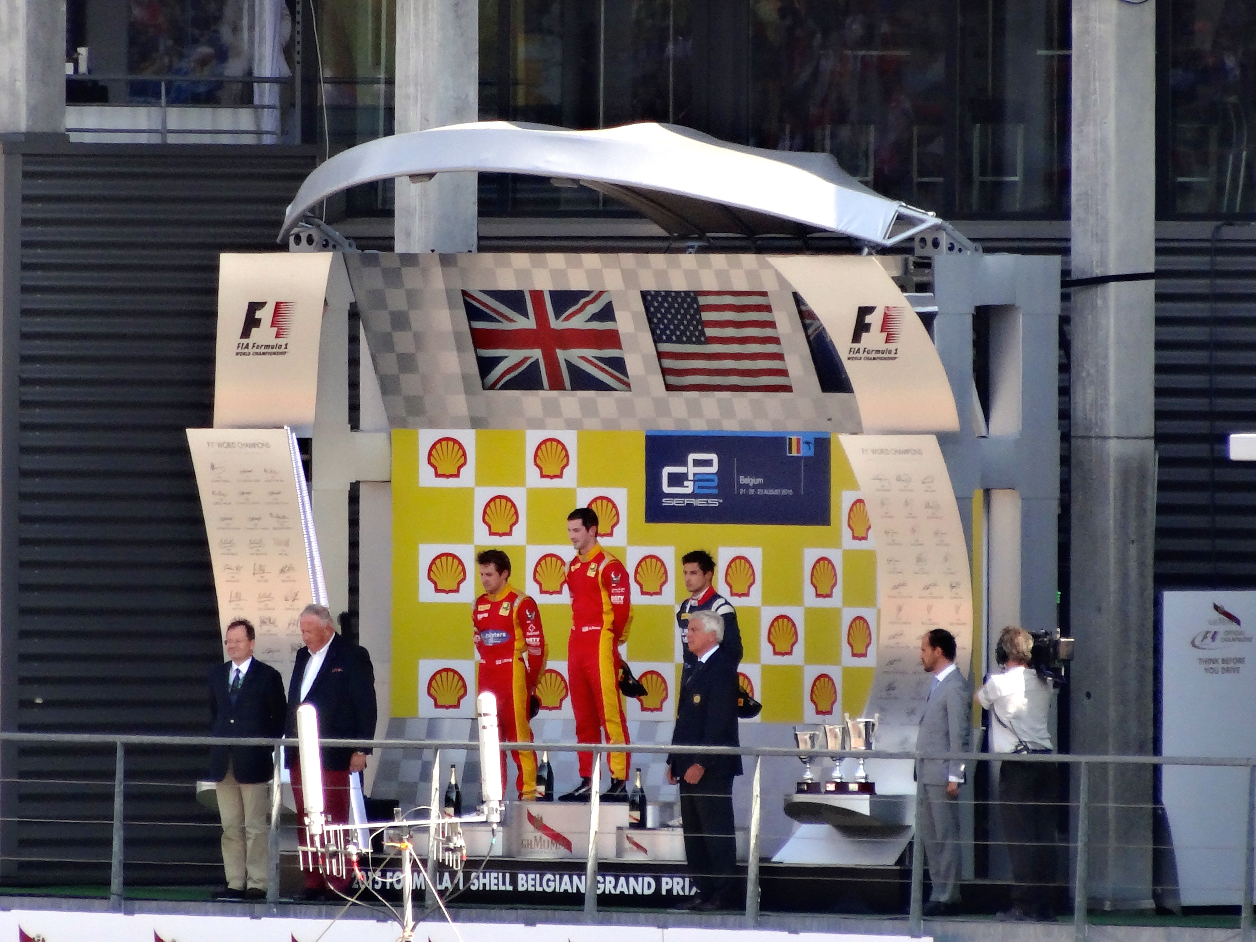 Alexander Rossi win in Spa GP2 2015